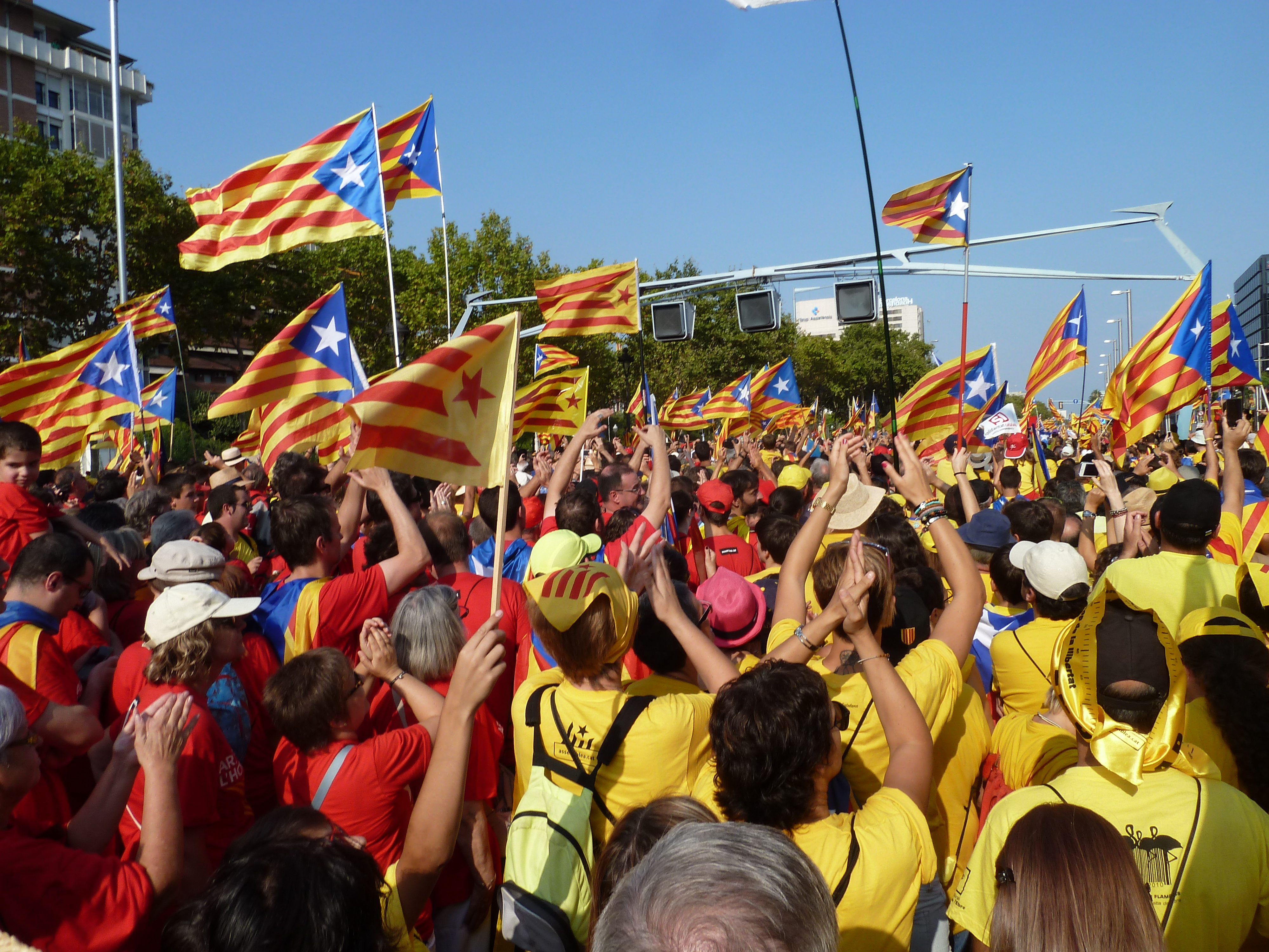 View of the Diagonal Avenue of Barcelona during the process of formation of the senyera's mosaic, in a commemoration of the tricentennial of the siege of Catalonia in 1714 and the claim for a referendum regarding Catalonia's future with Spain.